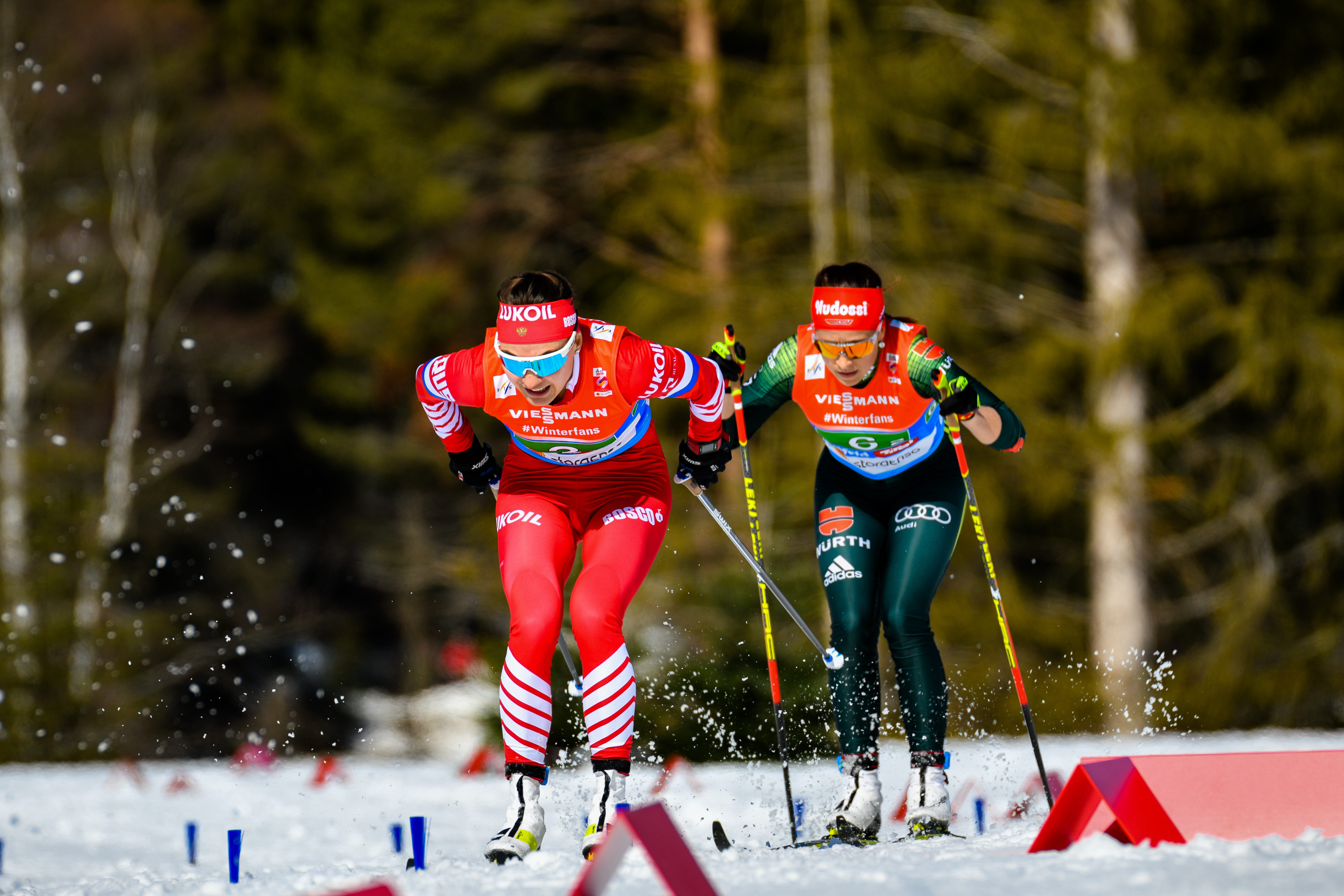 FIS Nordic World Ski Championships Seefeld 2019 - Ladies 4x5km Relay Classic/Free. Picture shows Anastasia Sedova (RUS), Katharina Hennig (GER).